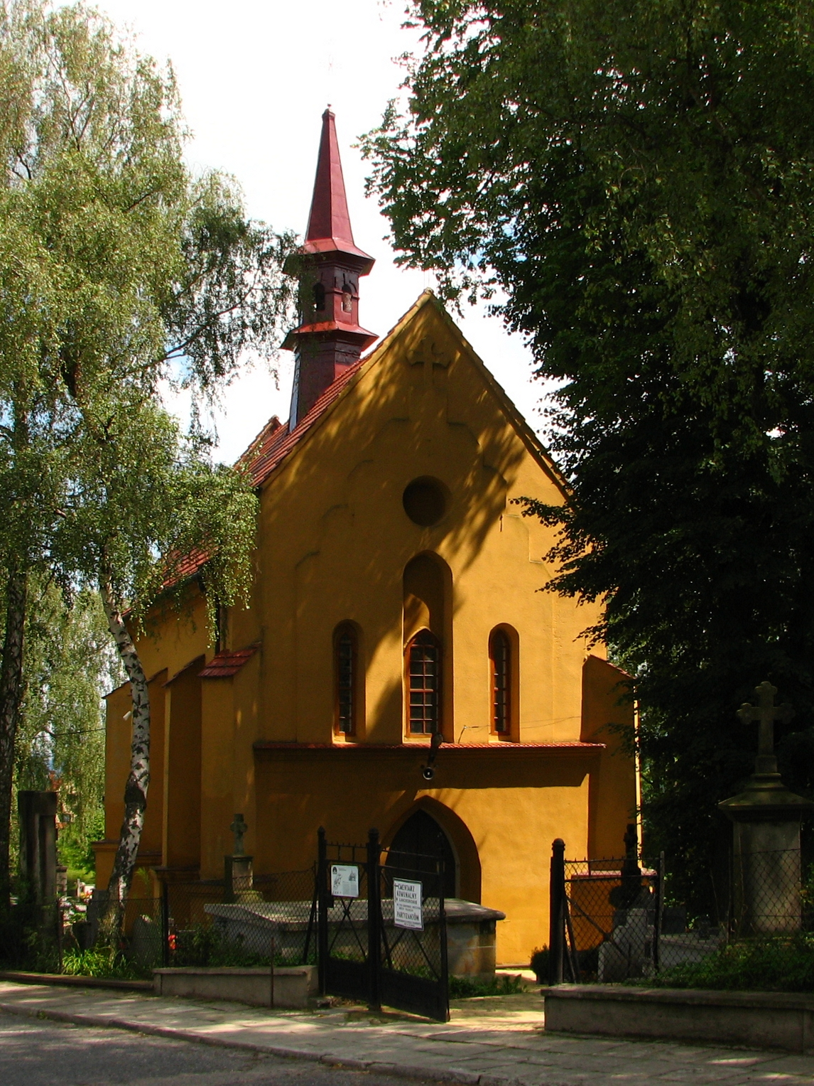 The st. Cross cemetery chapel in Lanckorona, Świętokrzyska 67 street, Poland.